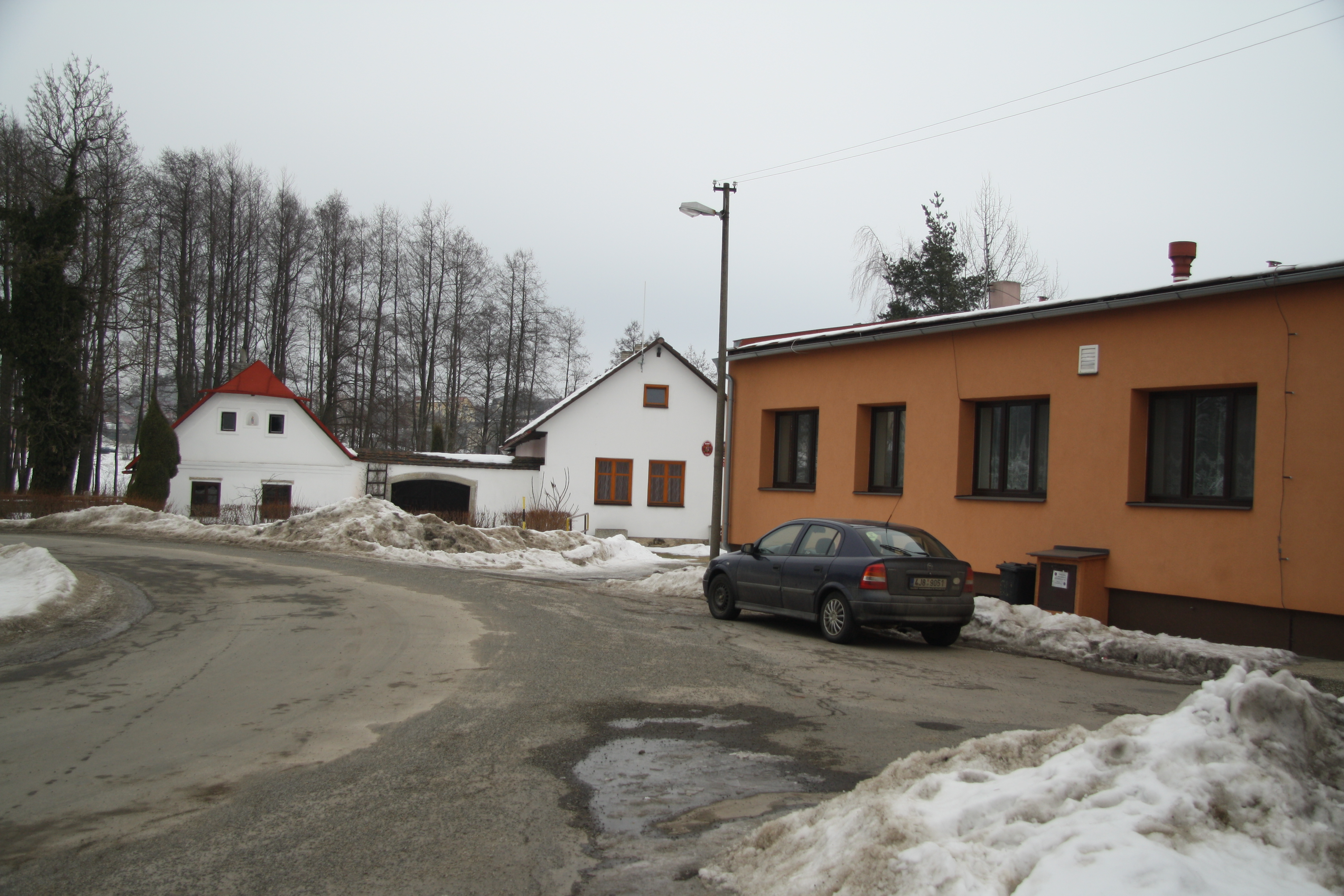 Center of Boršov 2, Jihlava District.